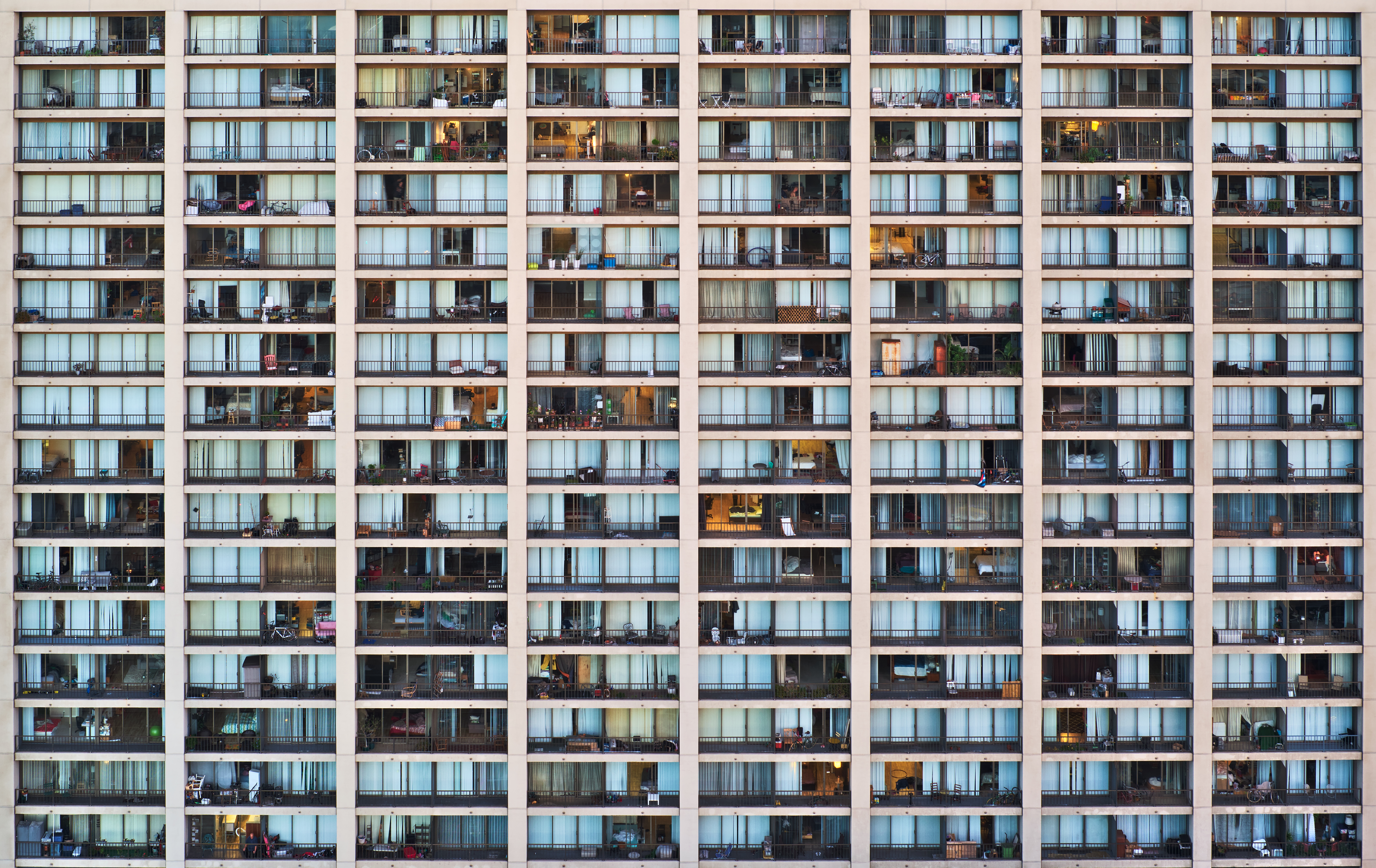 Apartments of Fox Plaza at 1390 Market Street, San Francisco